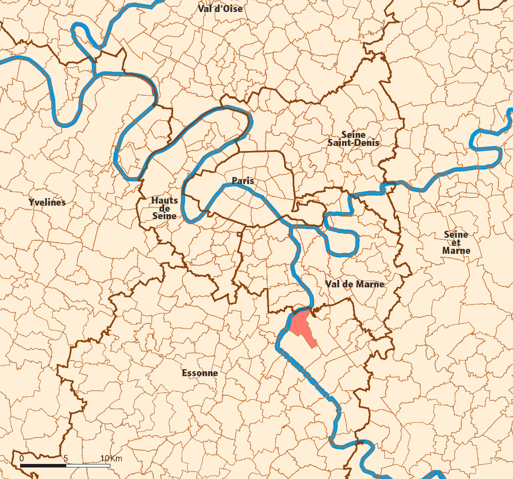 Created map myself.